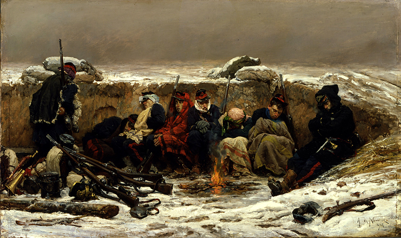 Members of the Garde Mobile (French expeditionary forces) are huddled in a shallow trench during the Franco-Prussian War of 1870-71. De Neuville has conveyed the general misery and tedium between battles that is associated with trench warfare. The artist complained that his dealer, Alphonse Goupil, wanted more flattering, less disturbing subjects and refused to pay him more than 6,000 francs, a small fee, for this painting.